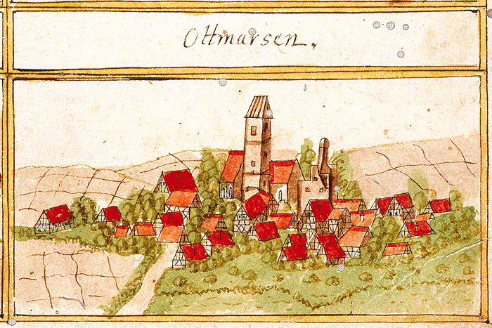 View of Ottmarsheim, Besigheim, from the forest register books created by Andreas Kieser